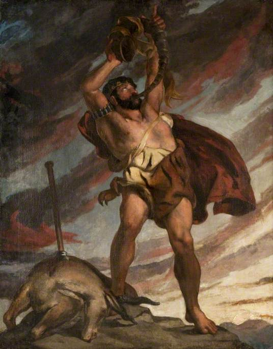 (c) Glasgow Museums; Supplied by The Public Catalogue Foundation